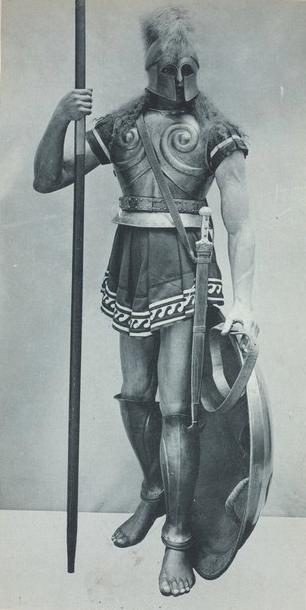 Spartan hoplite. Print from Vinkhuijzen Collection of Military Costume Illustration.